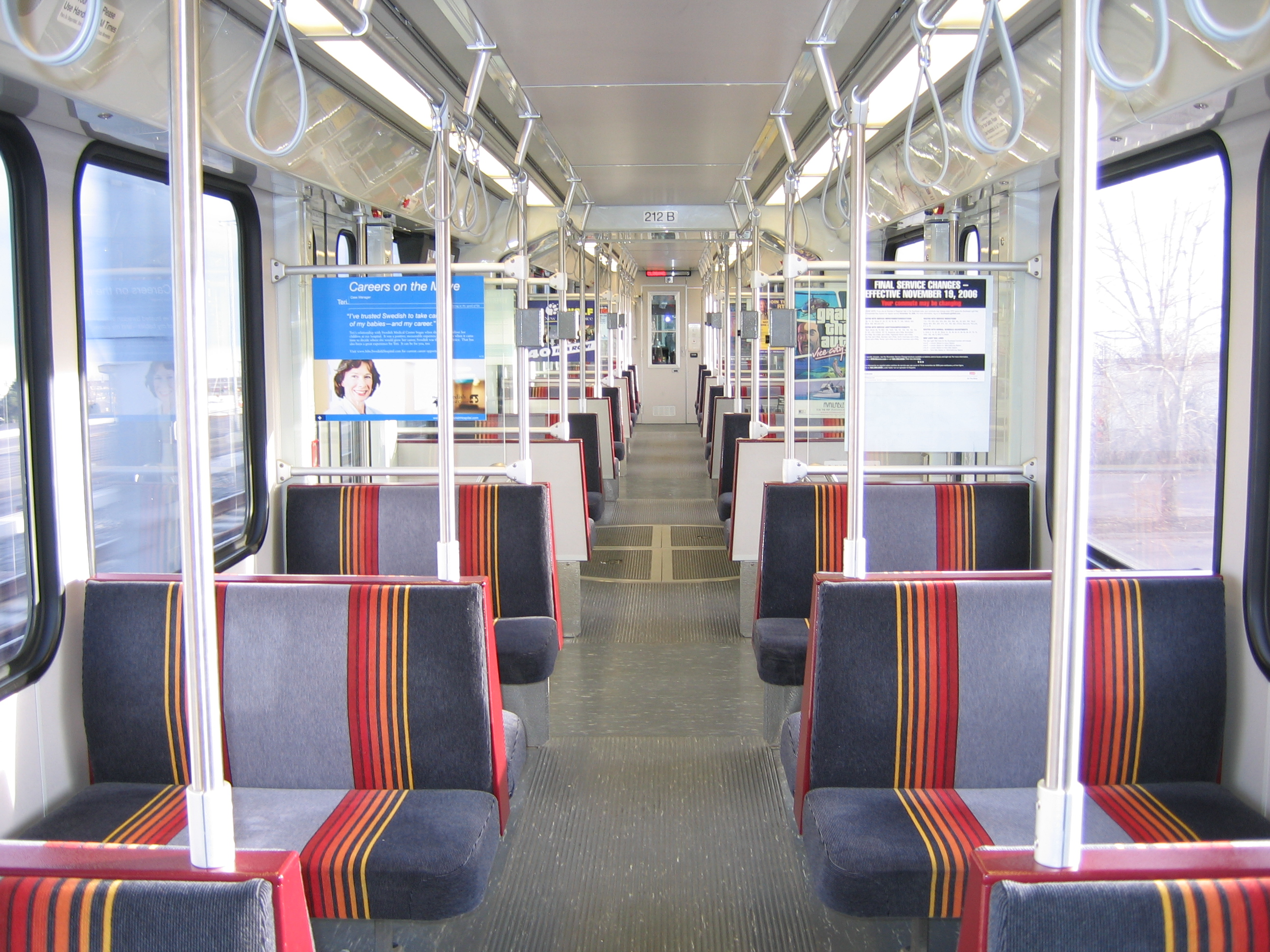 I, user aardvarkage, took this picture on Thursday, November 23, 2006 while riding the RTD light rail train.